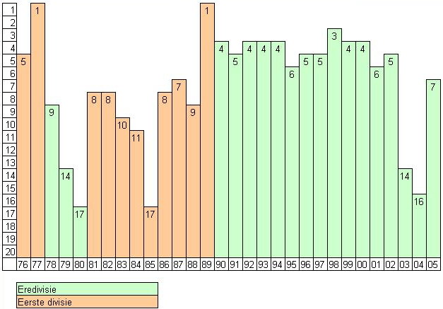 Dutch league positions of Vitesse, last 30 seasons